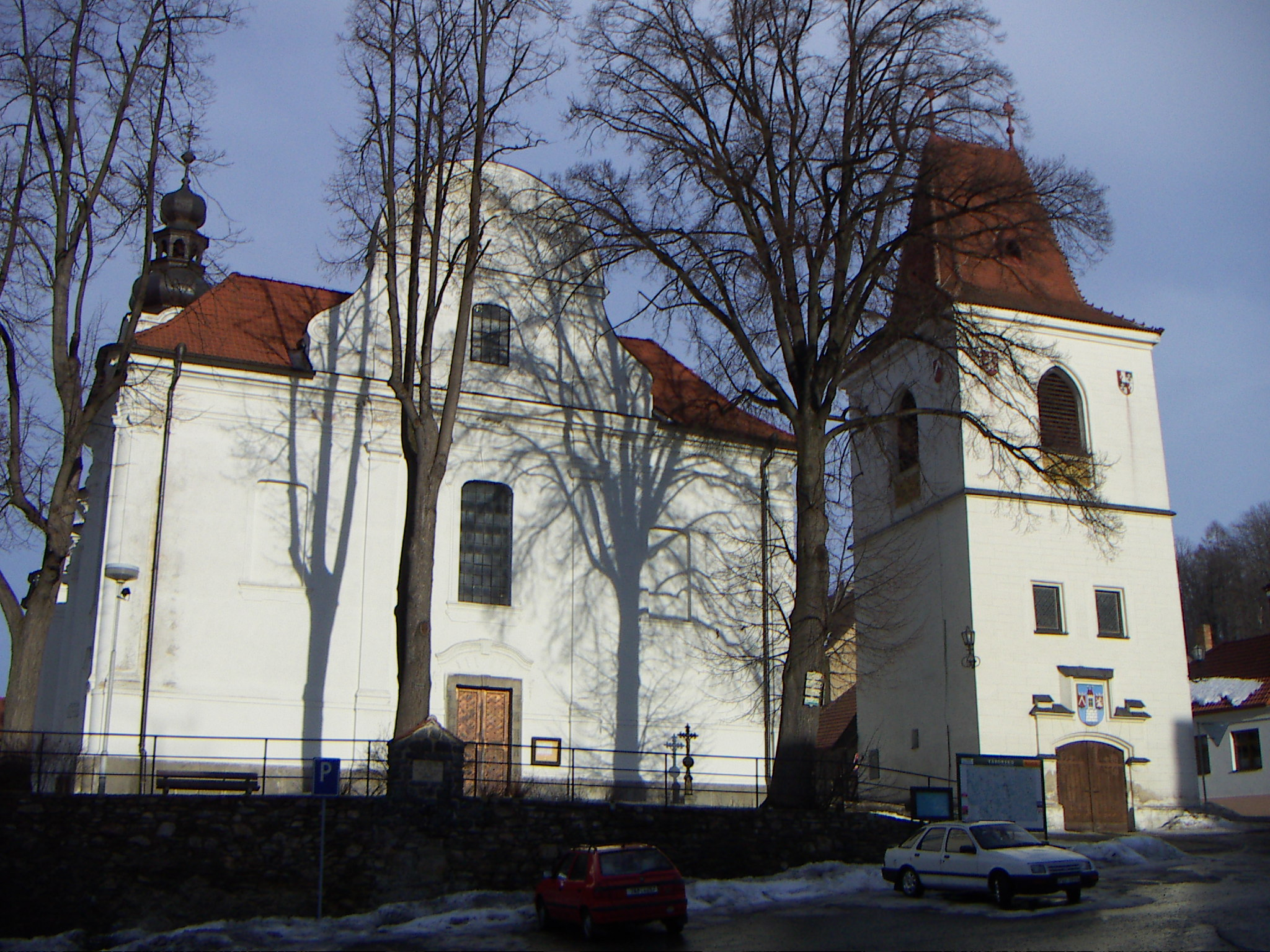 St Martin Church in Mladá Vožice, Czech Republic